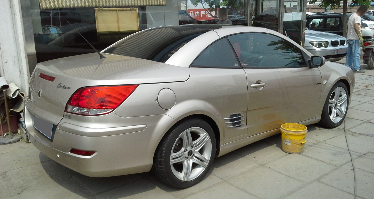 BYD S8 photographed in Beijing, China.